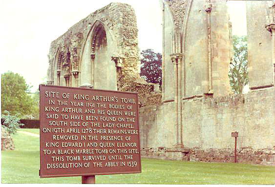 King Arthur's tombsite at ruins of Glastonbury Abbey. Moriori took this photo and releases it into the public domain.